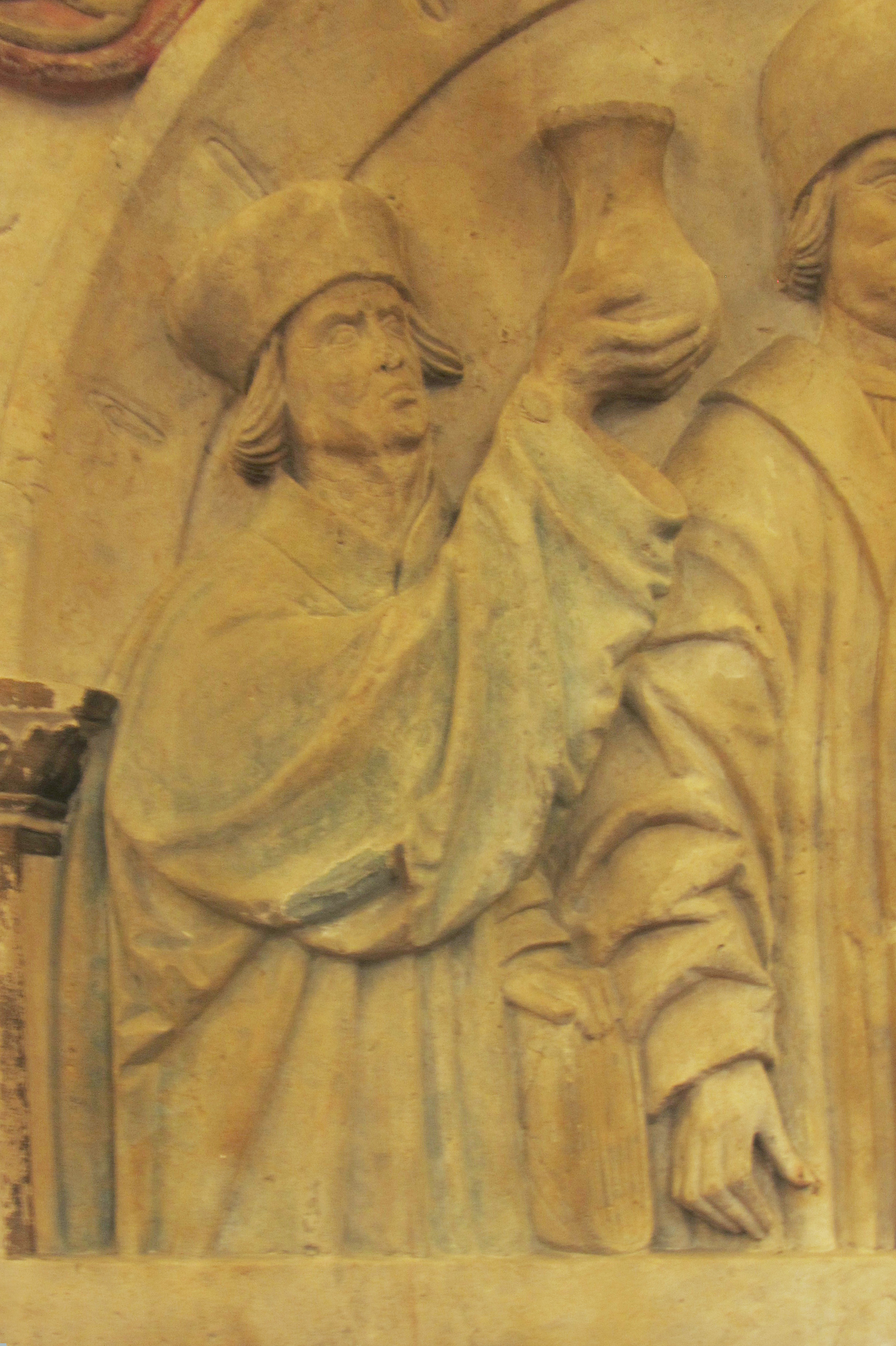 Detail of Nicolaus Pistoris at the Pistoris Epitaph in the Thomaskirche (Leipzig)